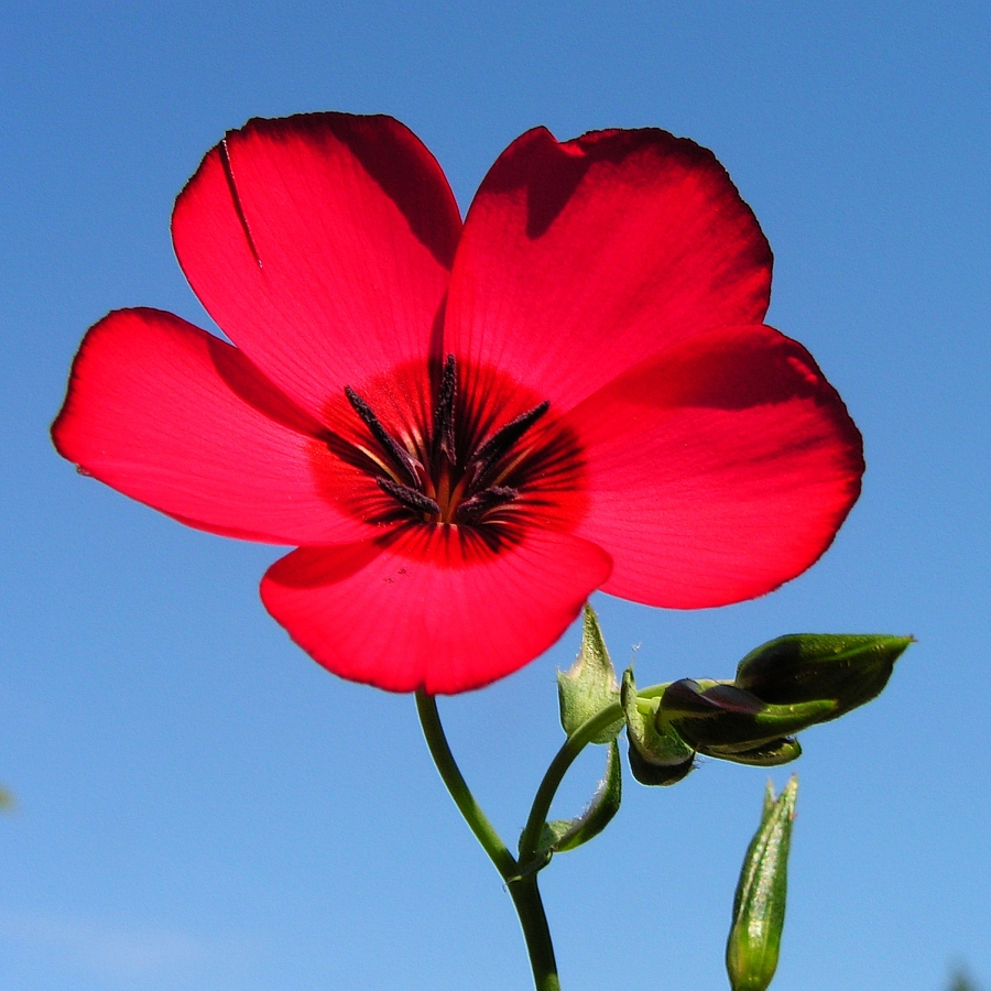 The flower of cultivated Linum grandiflorum. Moscow region, Russia.